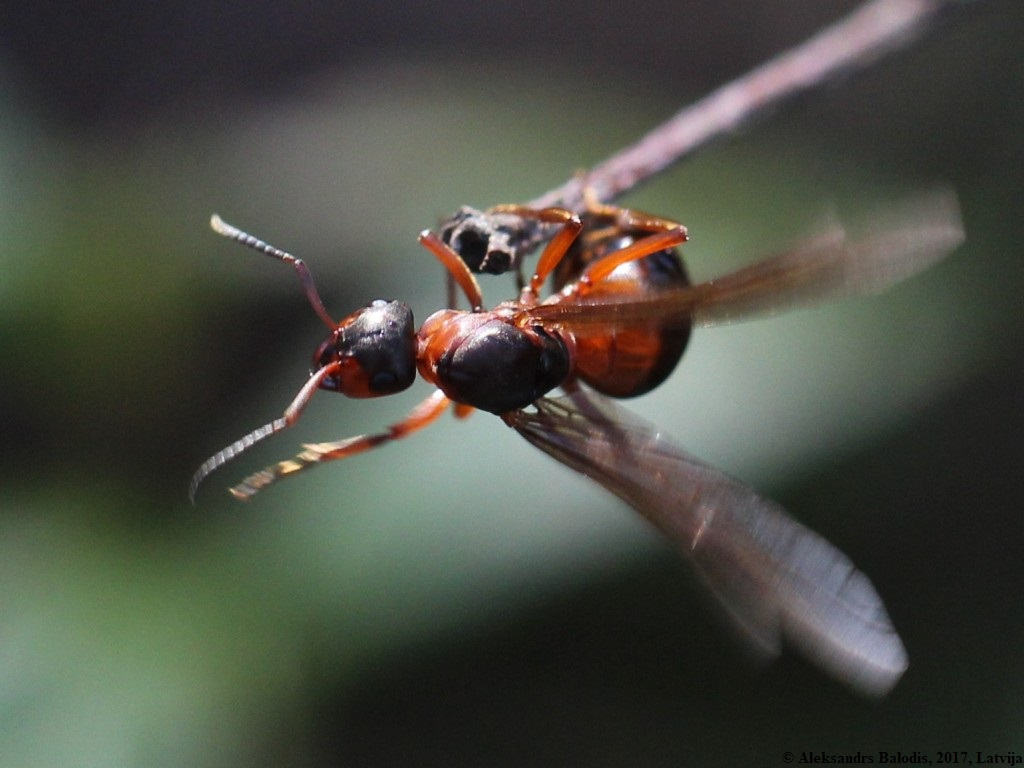 Formica rufa